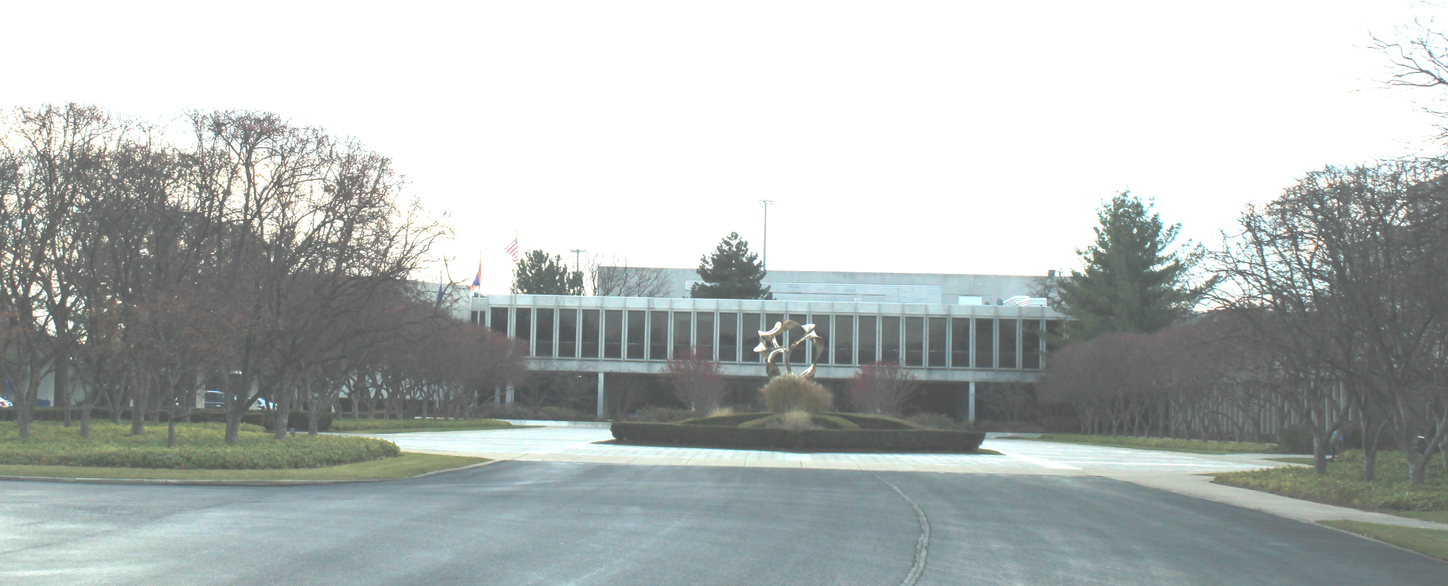 Masco Headquarters, 21001 Van Born Road, Taylor, Michigan